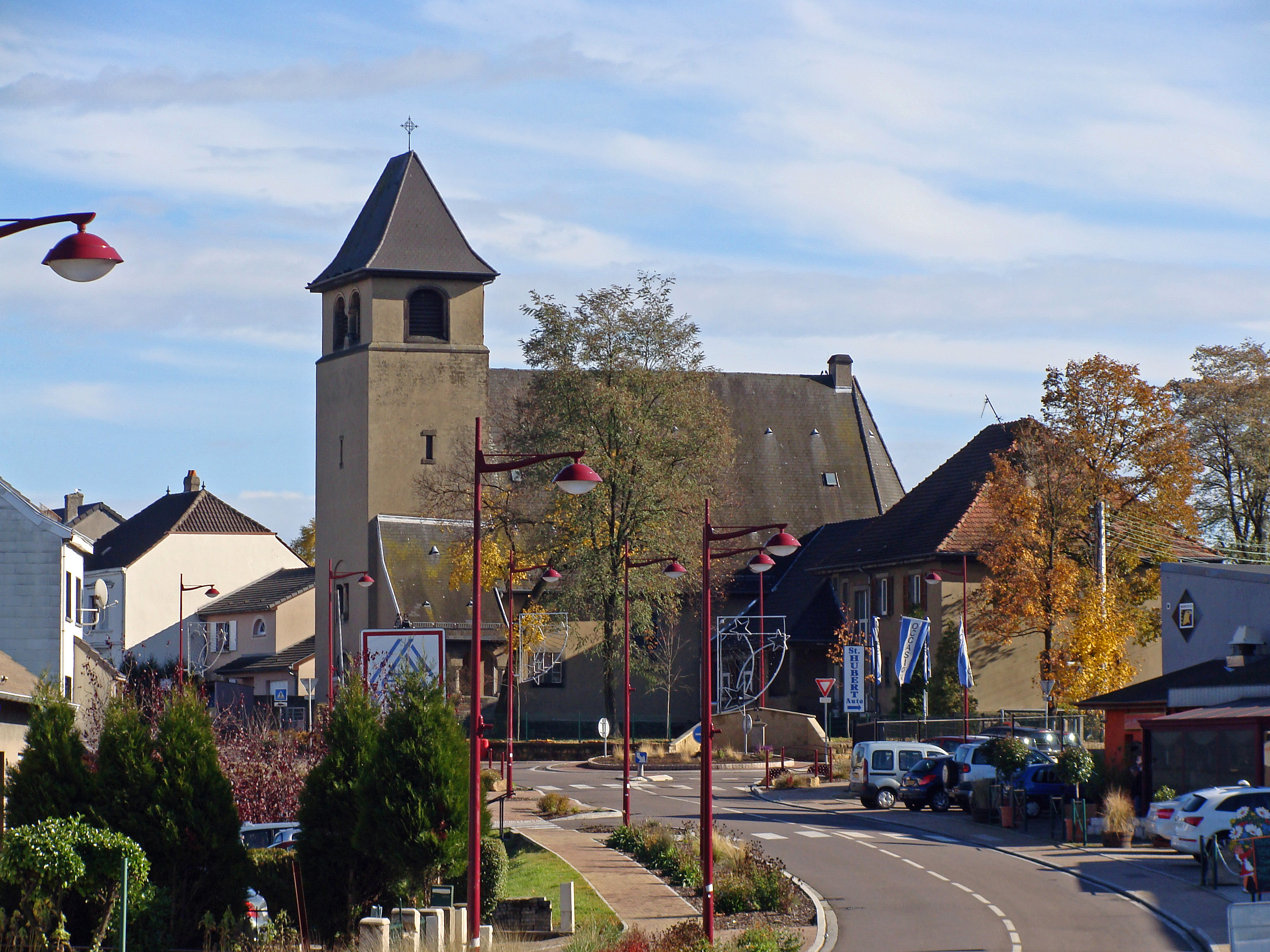 L'Hôpital (rue de Carling)